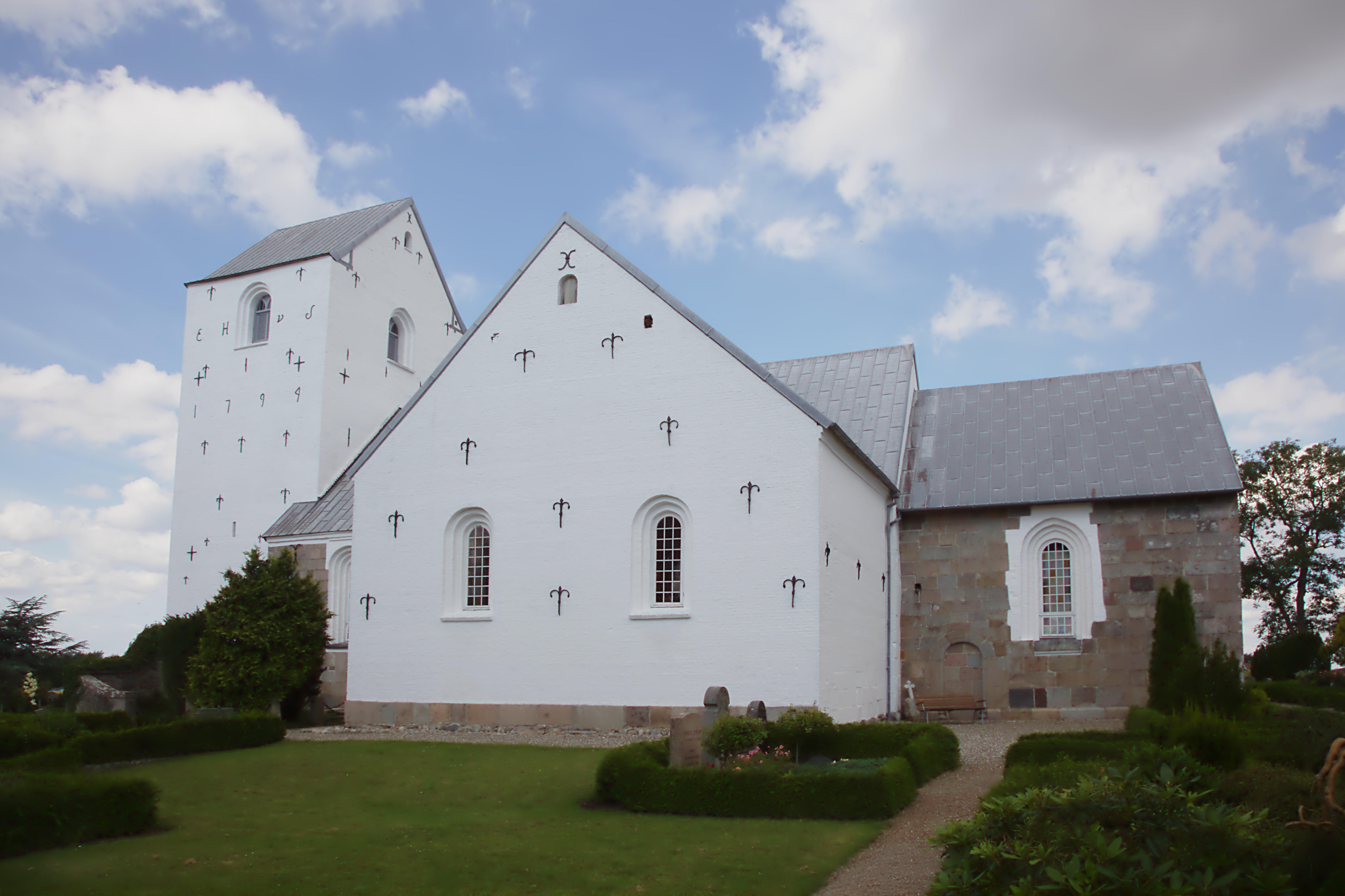 Gunderup Kirke just south of Aalborg, Denmark